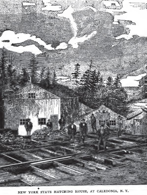 Caledonia Fish Hatcher circa 1879 from (1879) Fish Hatching and Fish Catching (pdf), Rochester: Union and Advertisers Book and Job Print, p. 39